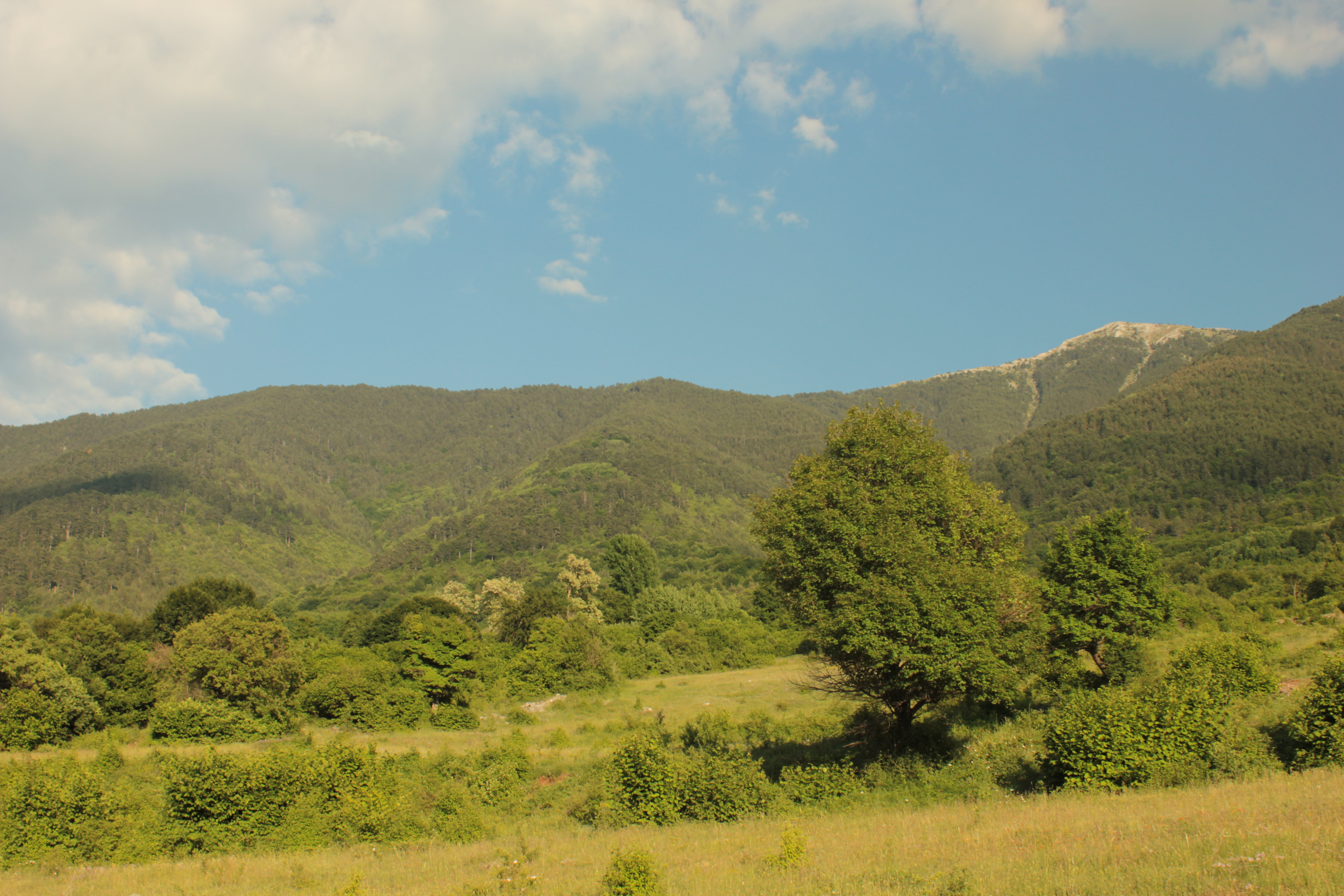 The national reserve Ali Botush in Bulgaria